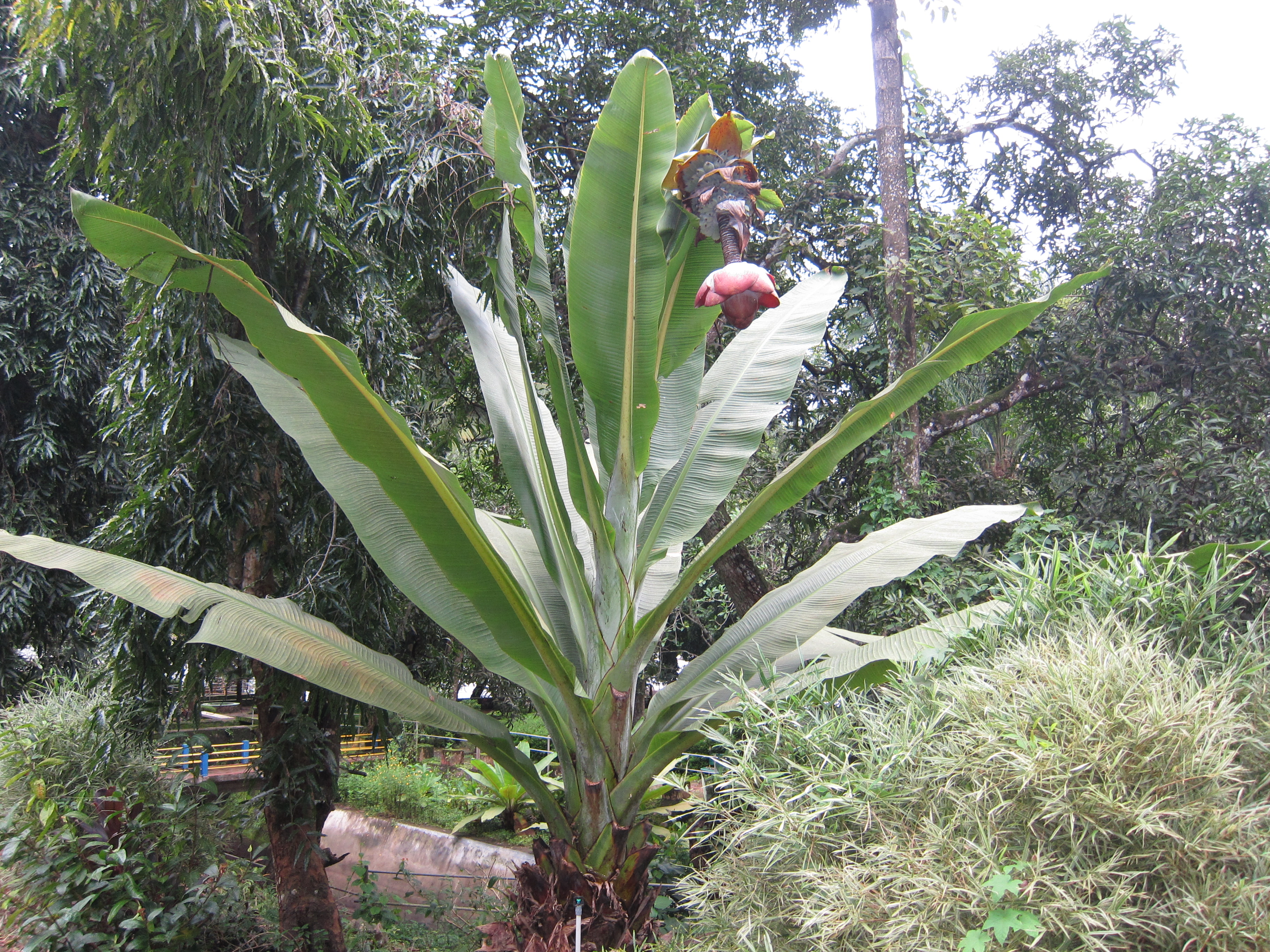 Ensete Superbum - കല്ലുവാഴ, കാട്ടുവാഴ, മലവാഴ ത്രിശൂർ ജില്ലയിൽ ചാലക്കുടിക്കടുത്തുള്ള തുമ്പൂർമുഴി തടയണയ്ക്കടുത്തുള്ള ഉദ്യാനത്തിൽ നിന്ന്...